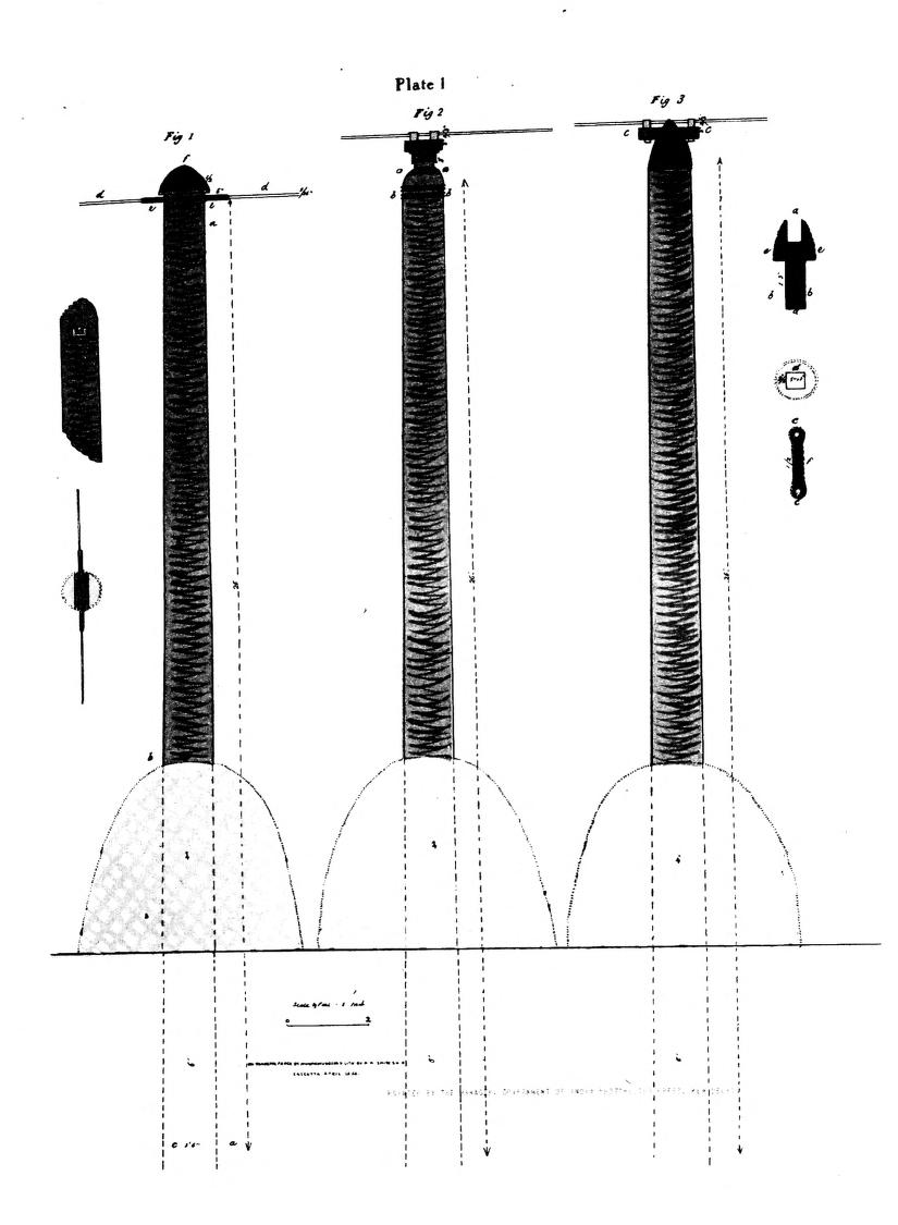 Palm tree for telegraphy posts - design by Seeb Chunder Nandi